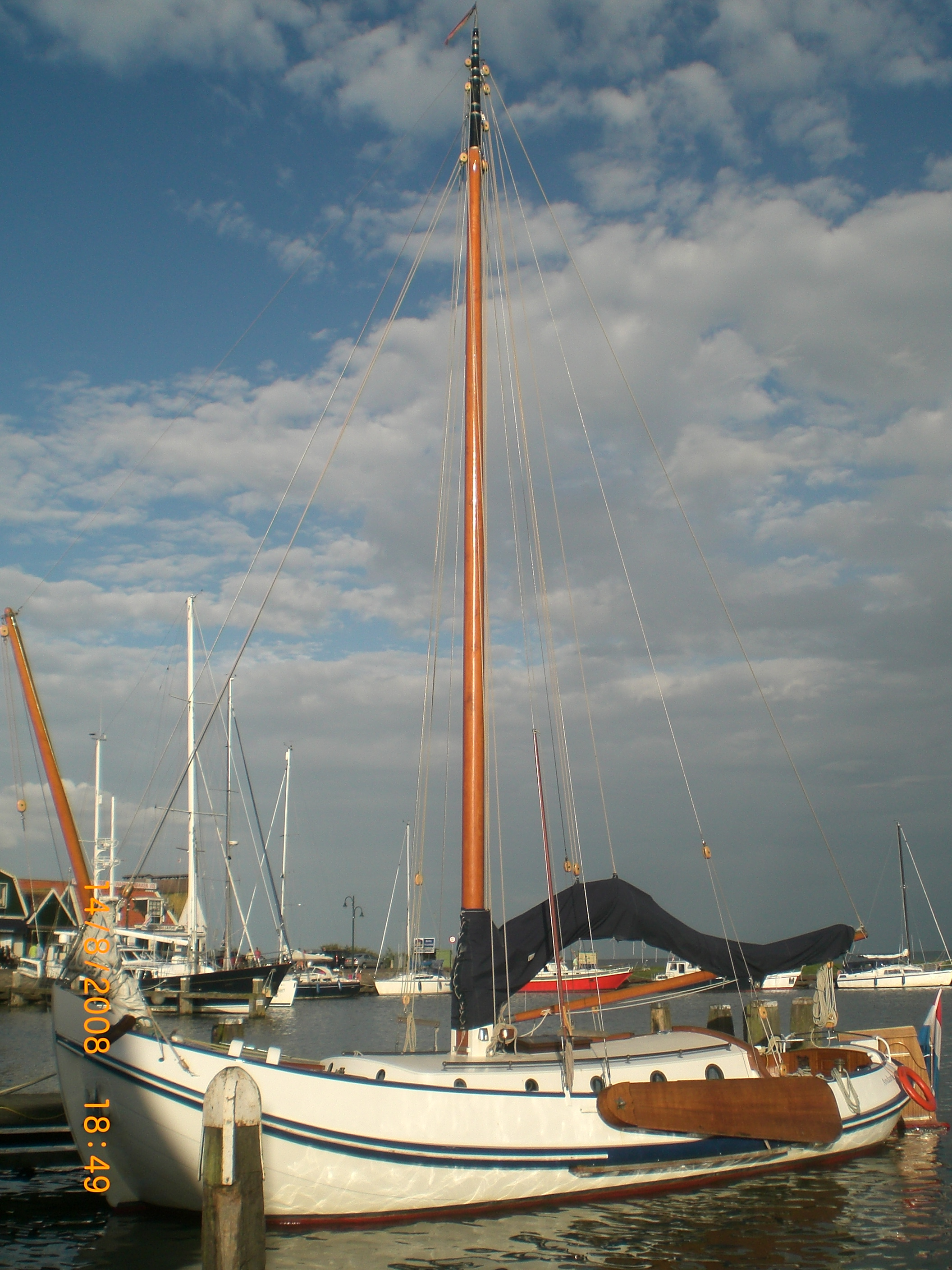 Lemsteraak "Andante" in the harbour of Volendam(NL)